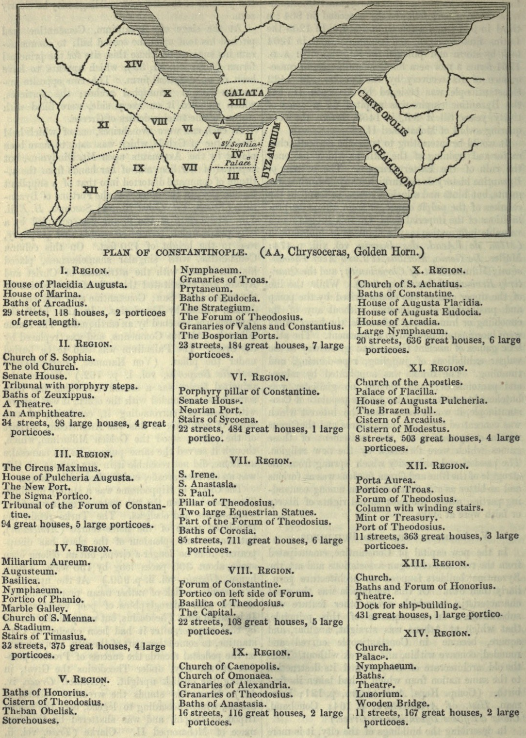 Plan of Constantinople with its regions and the major buildings located in each, after the Notitia Urbis Constantinopolitanae of ca. 425 AD.